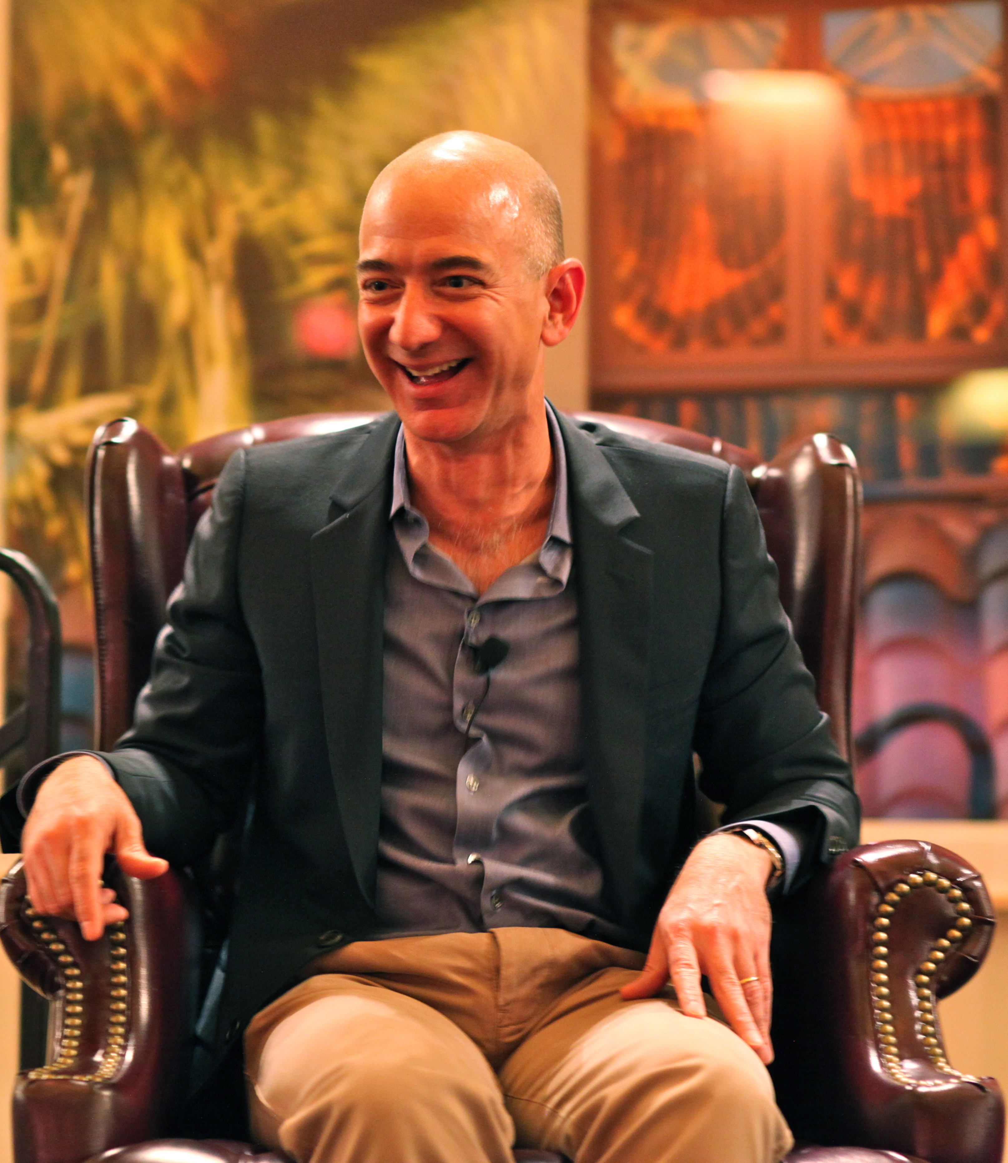 Jeff Bezos at the ENCORE awards.